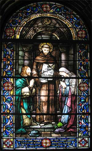 St. Francis institutes The Third Order - 1221, stained glass, Mount St. Sepulchre Franciscan Monastery in Washington DC